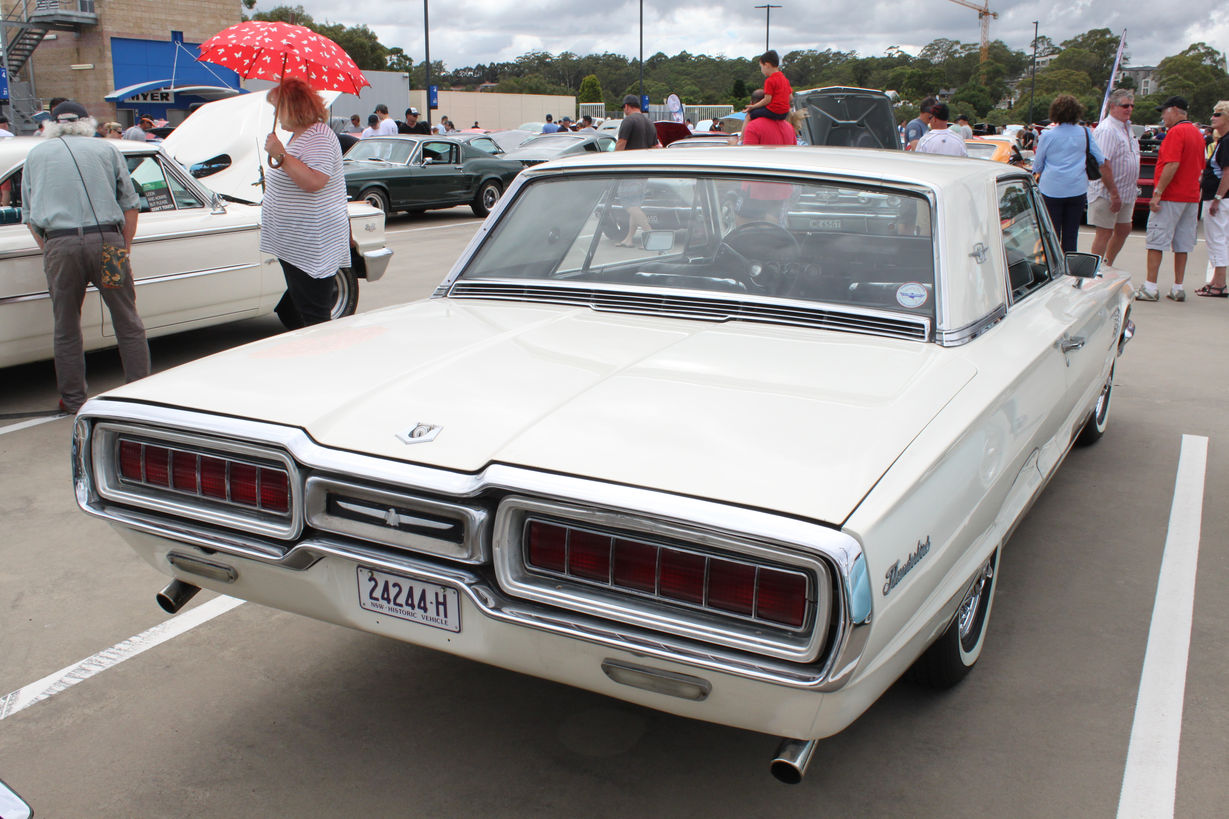 All American Car Show, Castle Hill NSW, January 2016